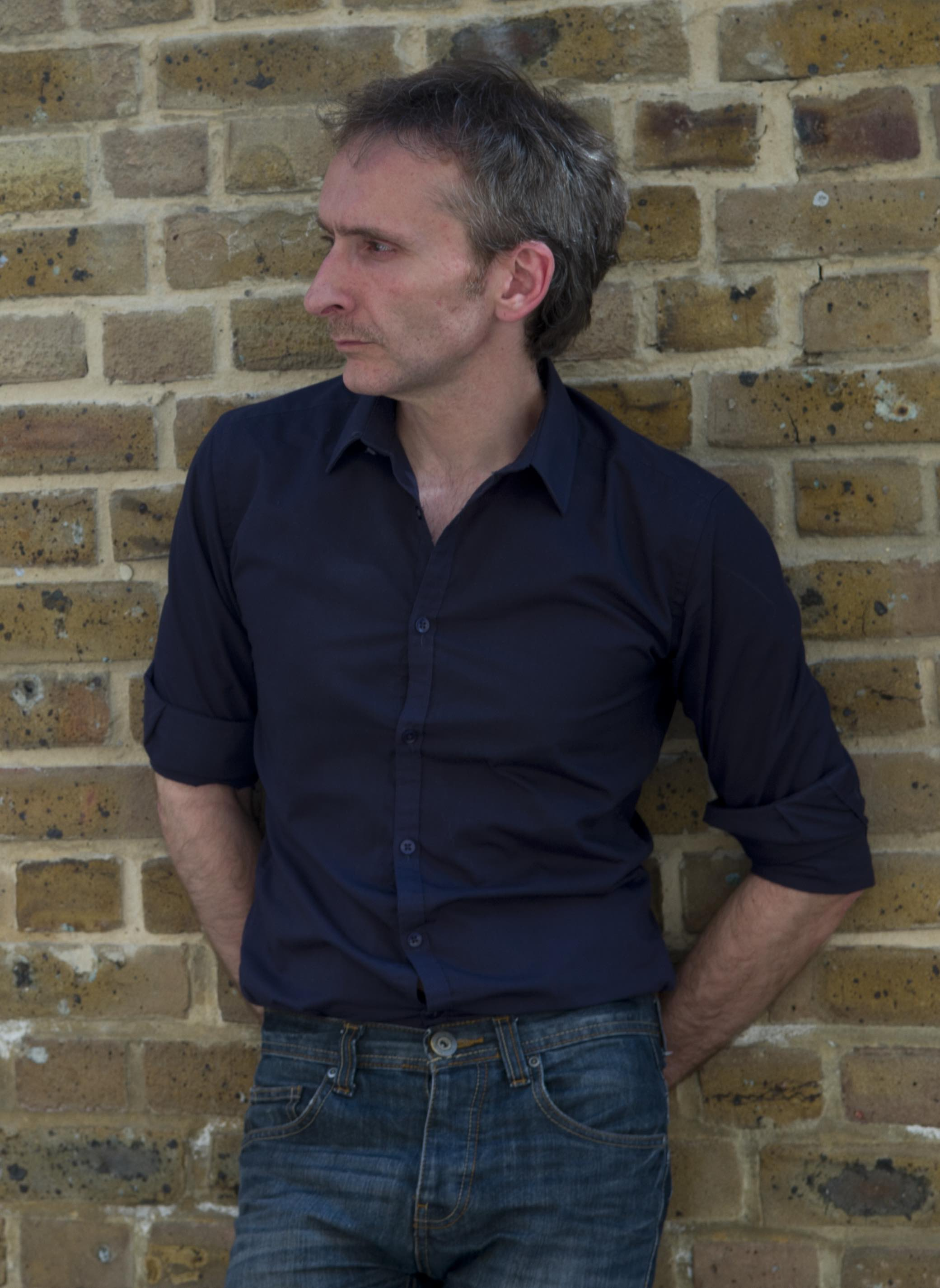 Dario Palermo, London 2015